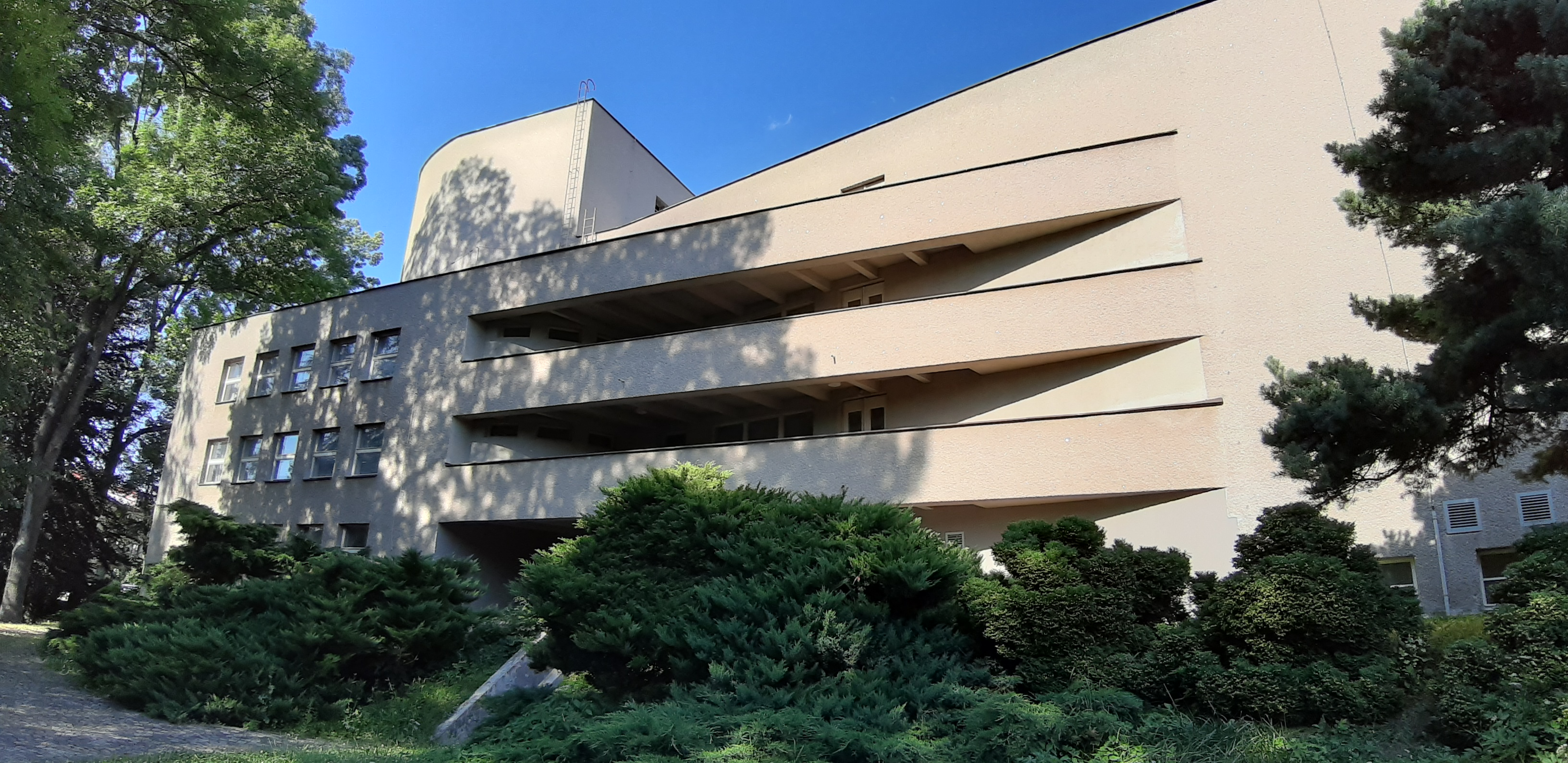 Roškot's Theater W